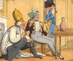 "Confirmation, or, the Bishop and the Soldier" (1822). This satirical print was published in 1822 and represents an actual incident. The Bishop of Clogher had been discovered soliciting the favors of the soldier John Moverley in the back parlor of the White Lion pub. Upon discovery, both Clogher and Moverley were dragged through the streets, severely beaten, and jailed. (Ironically, Clogher was a noted member of the British Society for the Supression of Vice, which held homosexuality to be an abomination. A great scandal ensued during which clergymen on the street were reportedly regularly spat upon.) [1]